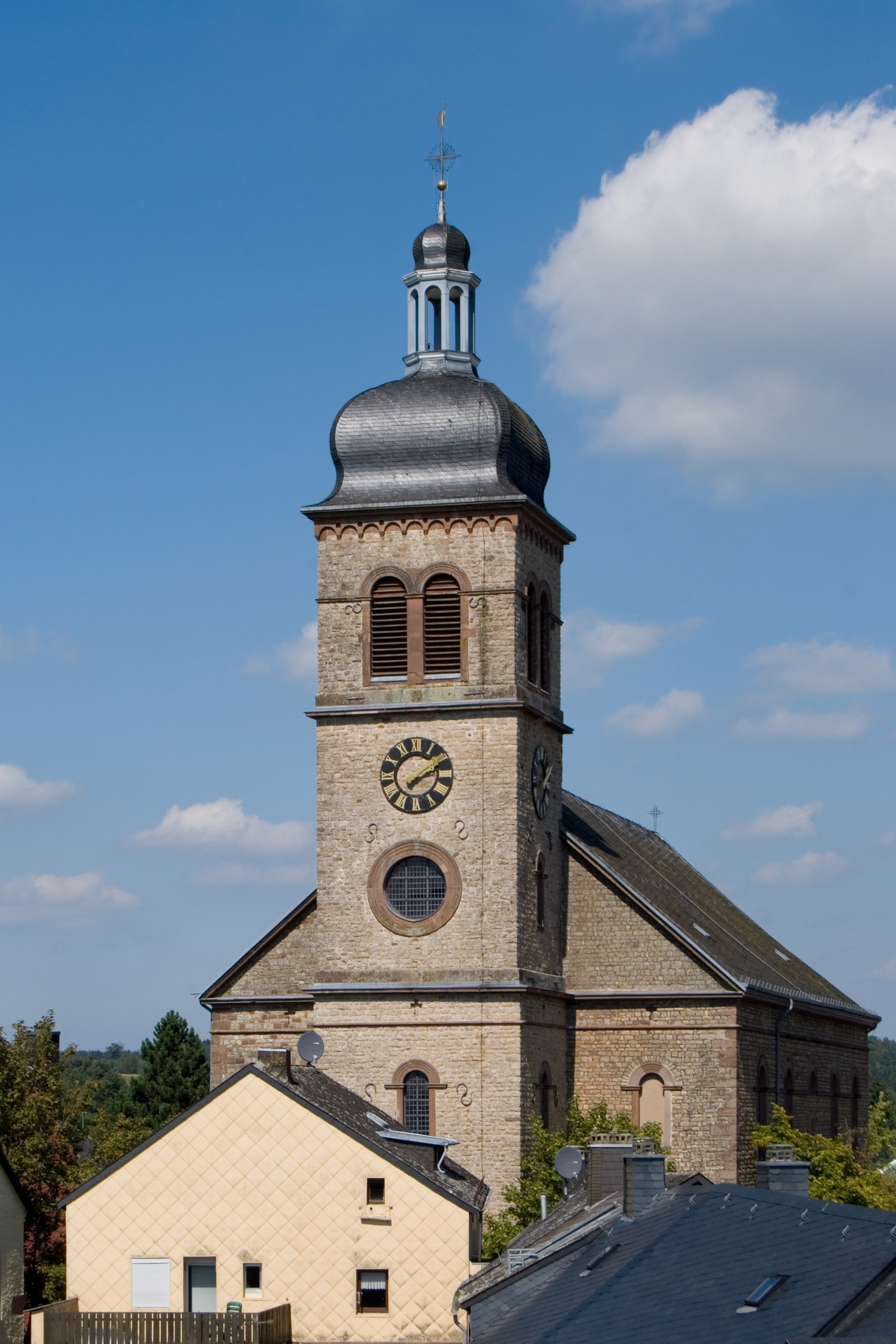 Hillesheim (Rhineland-Palatinate, Germany) – Catholic Saint Martin's Church – view from south from the city fortification This is a photograph of an architectural monument.It is on the list of cultural monuments of Hillesheim This photograph was taken with a Nikon D3000